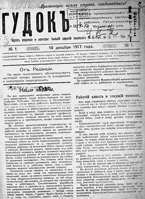 "Gudoc" - newspaper 10/12/1917 (Russia)